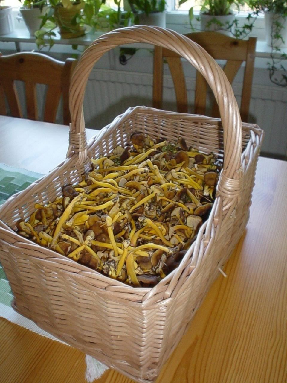 Image title: Cantharellus tubaeformis Image from Public domain images website